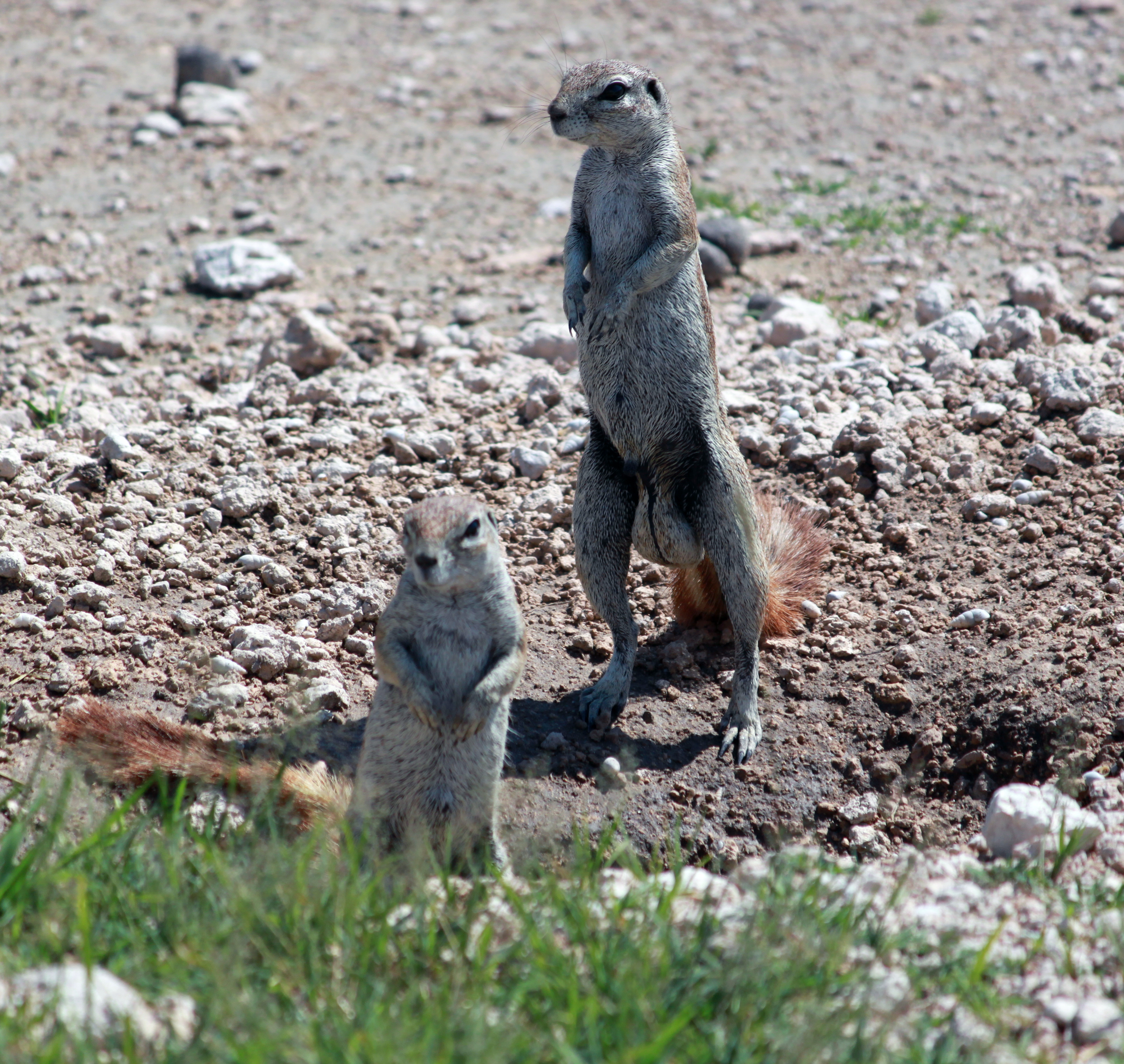 Cape Ground Squirrel in Etosha National Park, Namibia